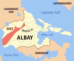 Locator map of Oas in Albay, Philippines.